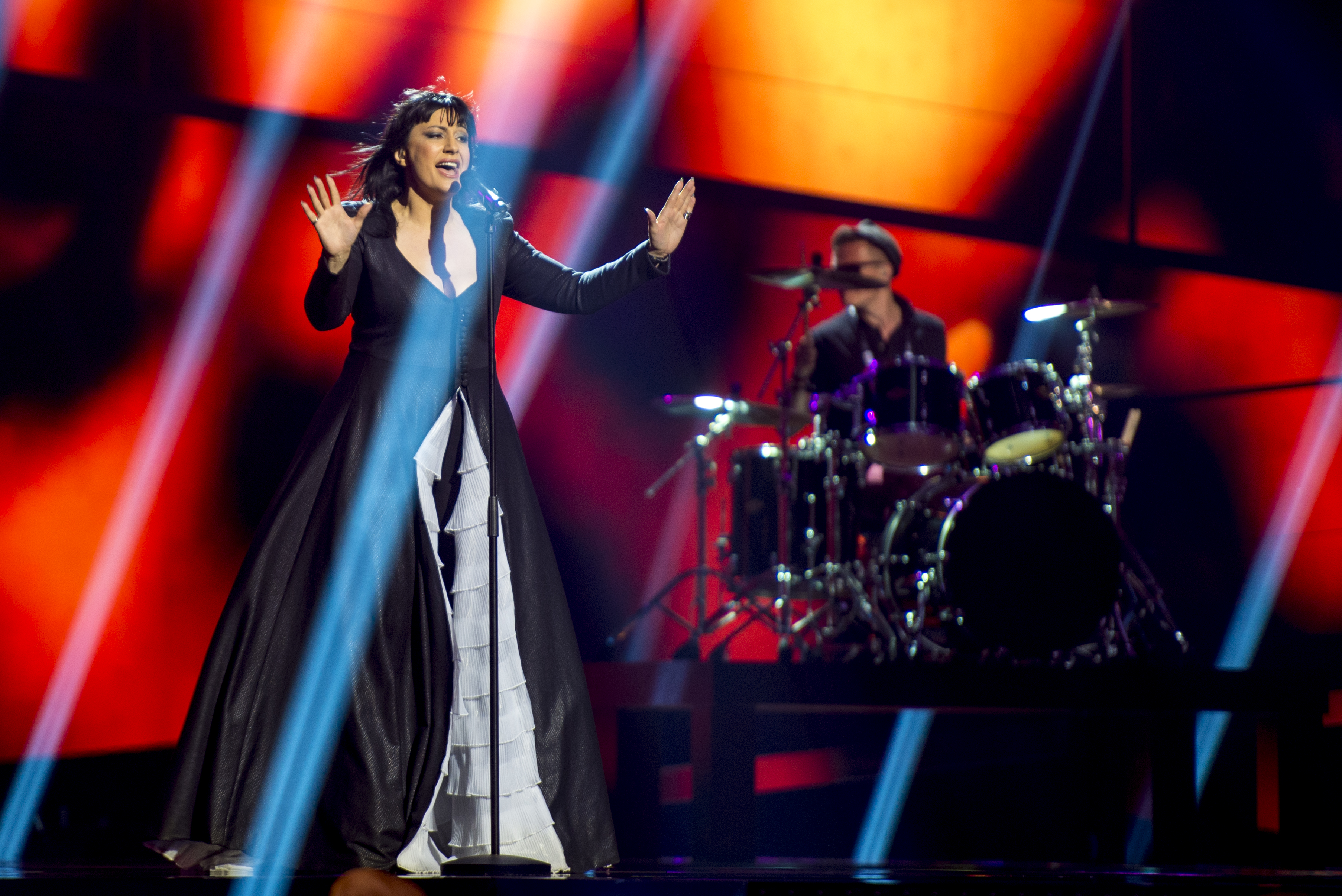 Kaliopi representing North Macedonia with the song "Dona" during a rehearsal before the second semi final of the Eurovision Song Contest 2016 in Stockholm. (Help translate this text)